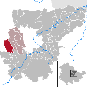 Mönchenholzhausen in Thuringia - District Weimarer Land